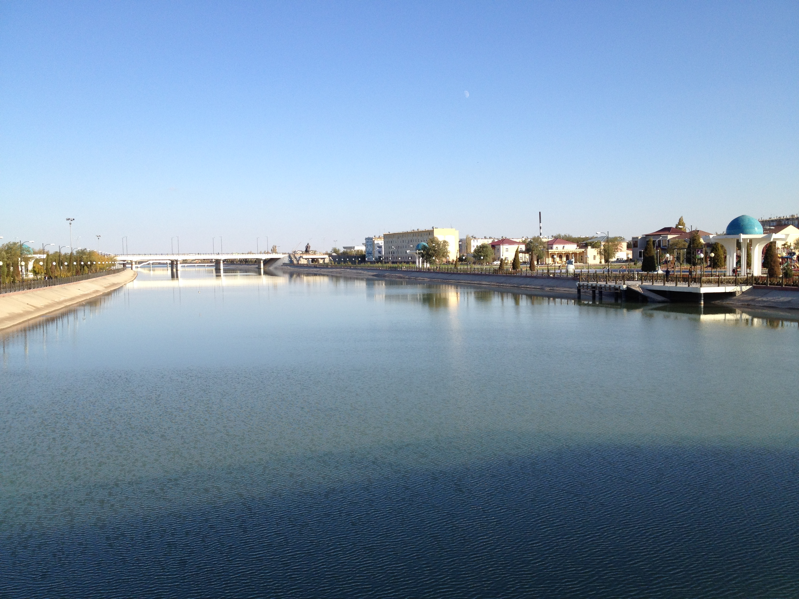 Shavat canal in Urgench ("Avesto" park)